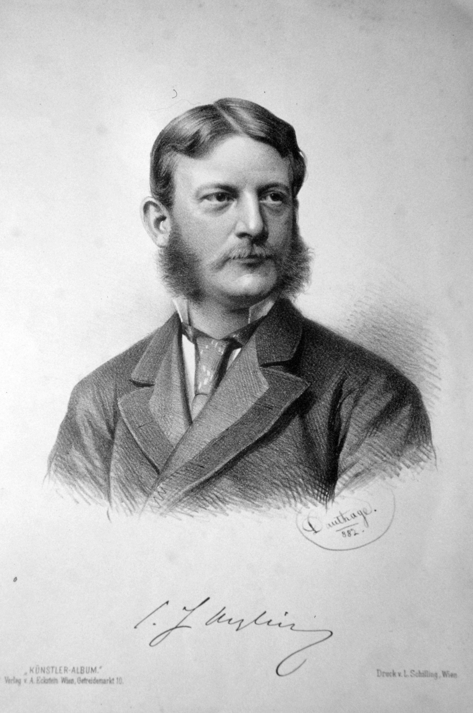 Carl Jonas Mylius (1839-1883), German Architect Lithograph by Adolf Dauthage, 1882 From "Künstler Album" published by A. Eckstein, Vienna